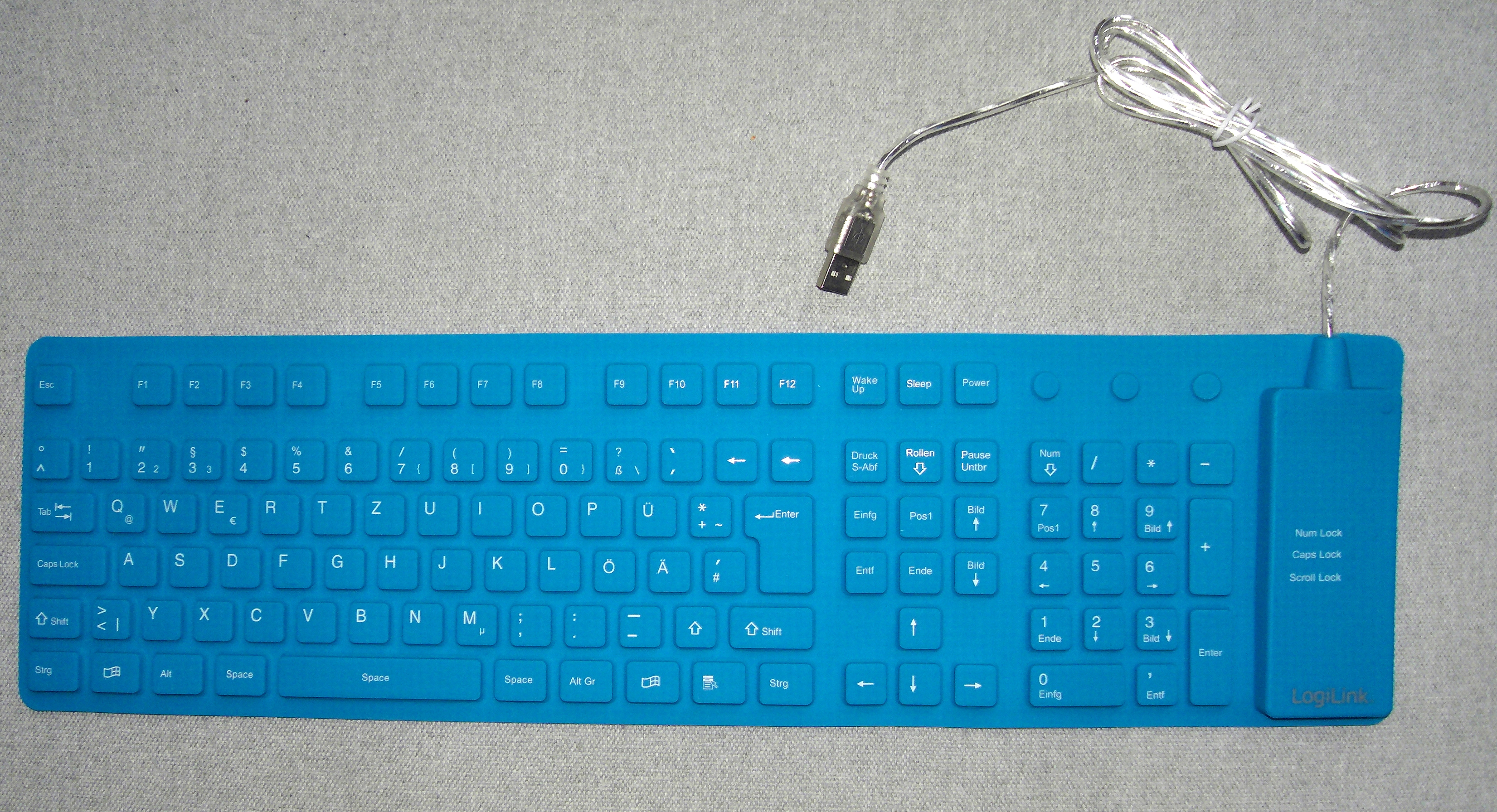 Foldable keyboard, German (QWERTZ)